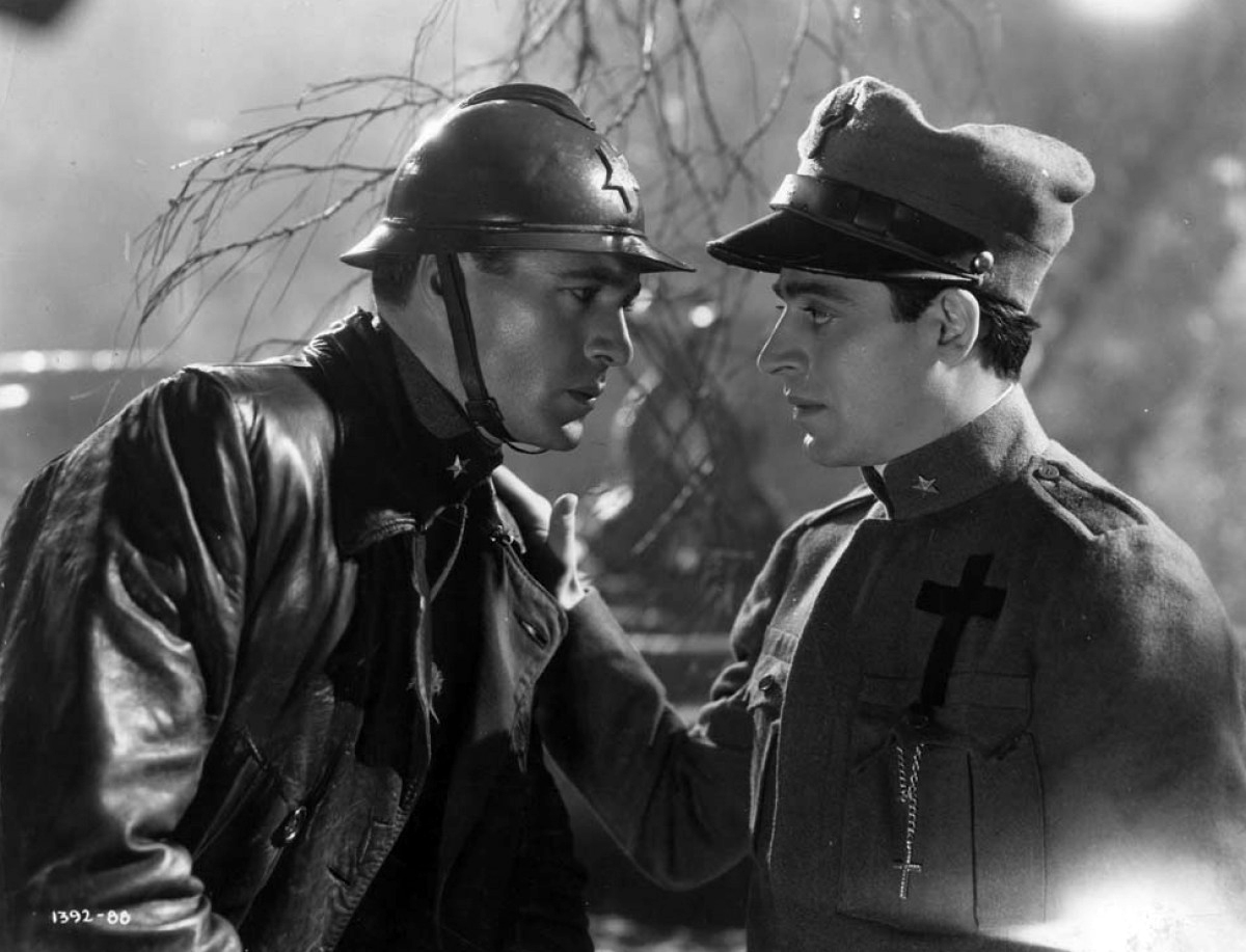 Gary Cooper (left) and Jack La Rue in A Farewell to Arms (1932) - cropped screenshot